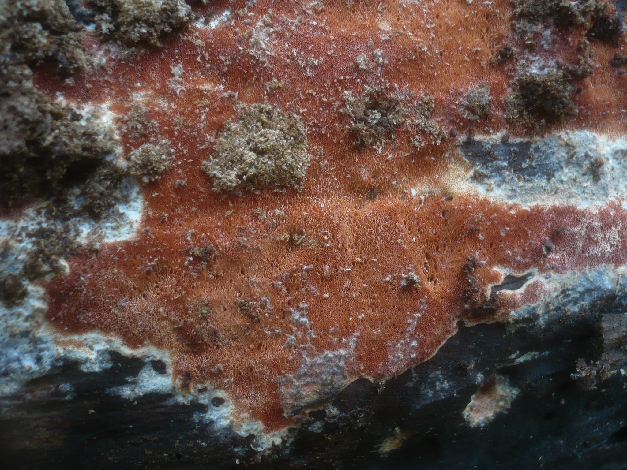 The crust fungus Ceriporia purpurea (Fr.) Donk. Photographed in Panozzalacke, Lobau, Vienna, Austria.